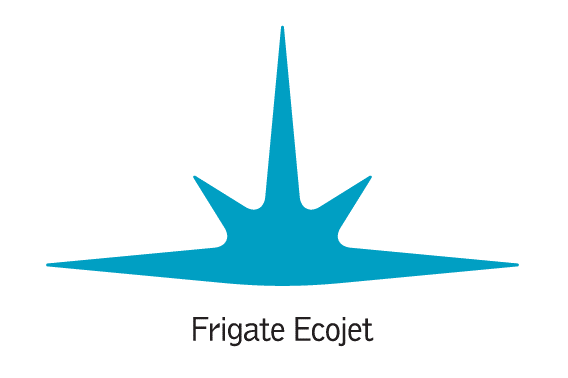 Frigate Ecojet program_logo